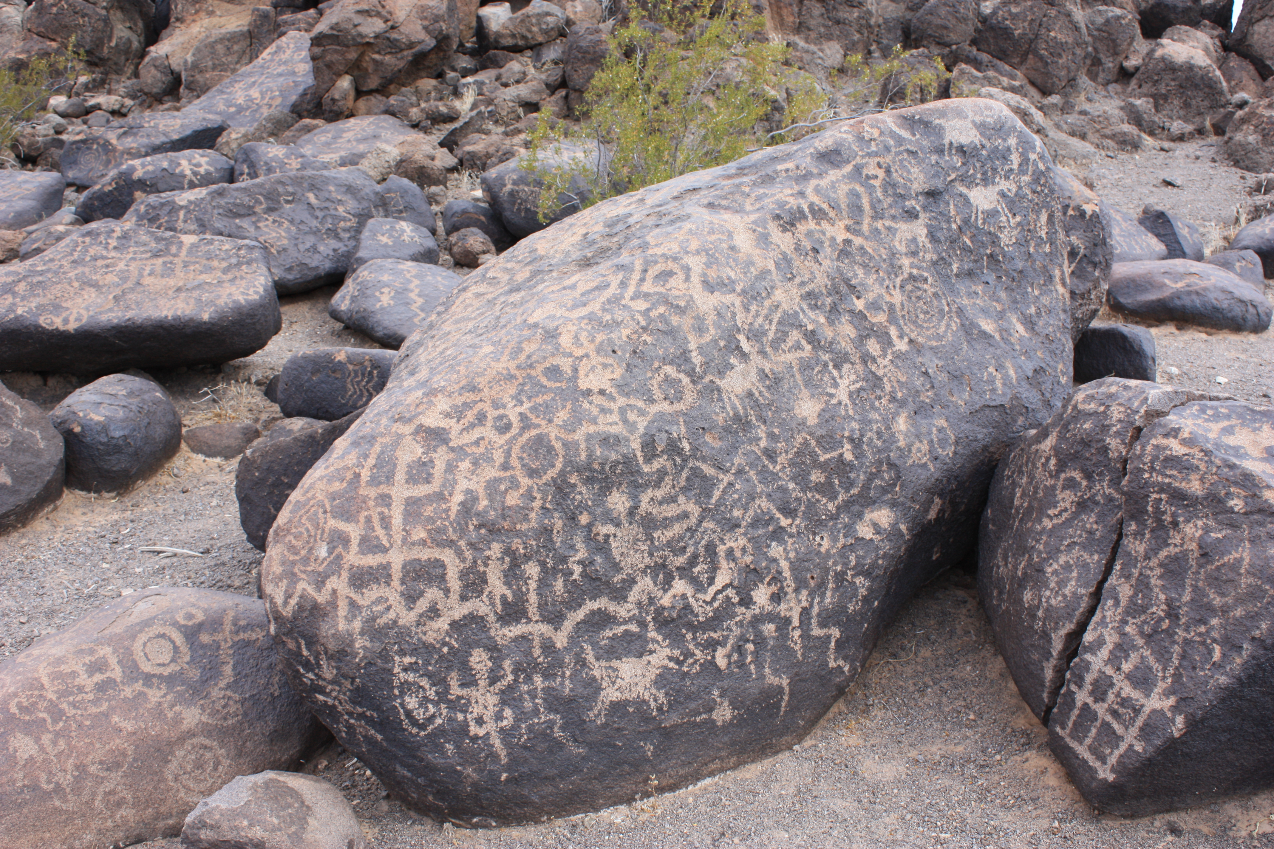 Prehistoric petroglyphs and modern inscriptions — at Painted Rock Petroglyph Site, in Maricopa County, Arizona.